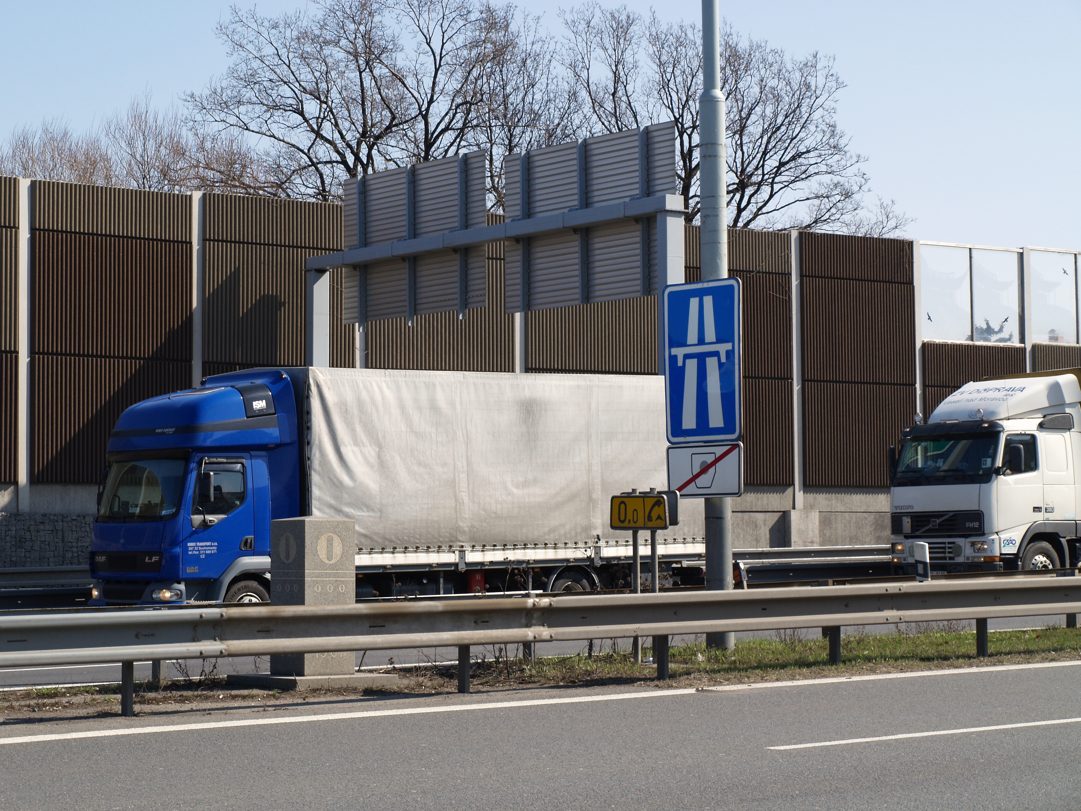 Memorial (1967) and sign of the beginning of Highway D1 (Czech Republic) in Chodov (Prague)